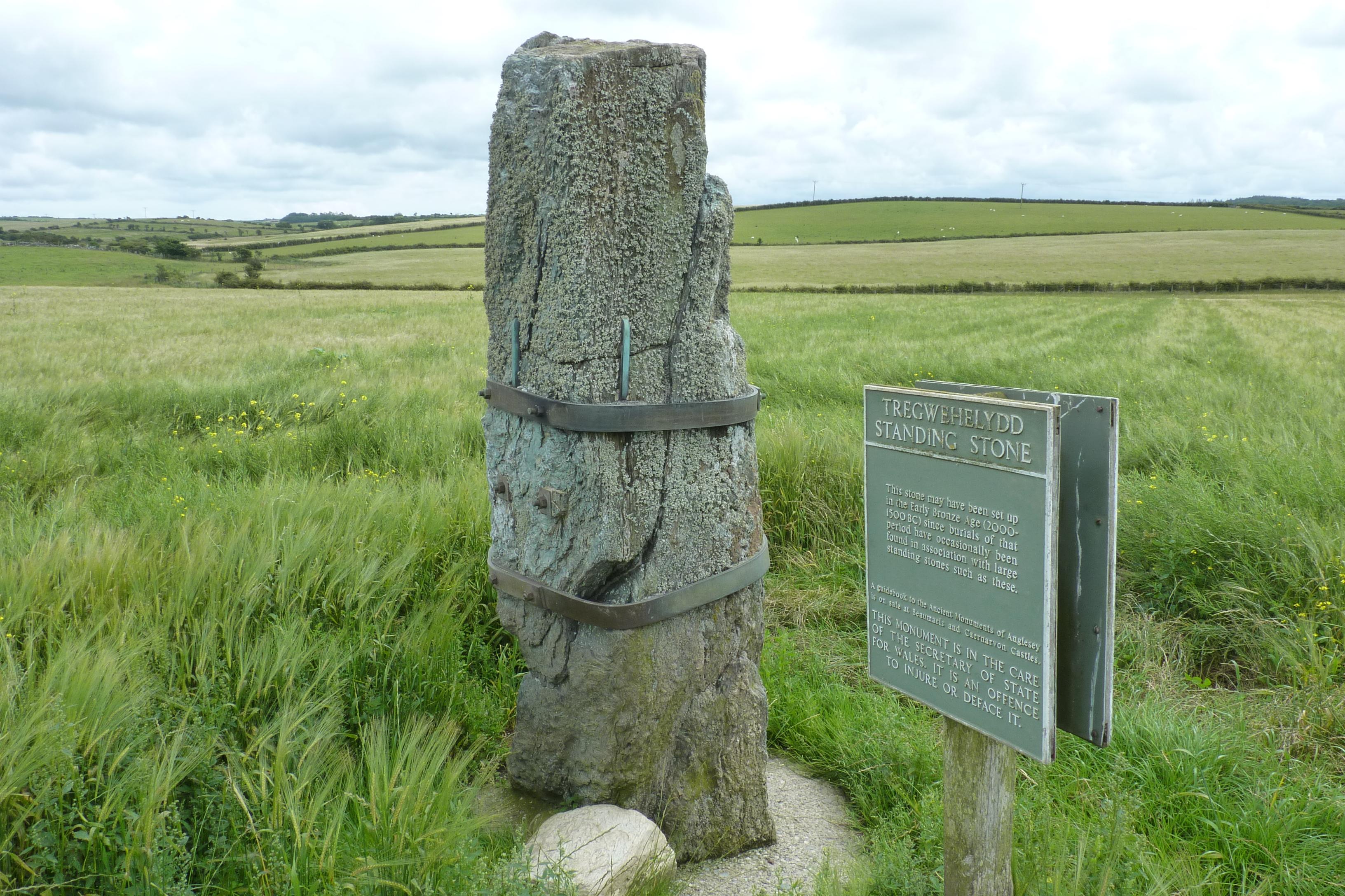 Tregwehelydd Standing Stone, Anglesey, Wales, in the care of Cadw.